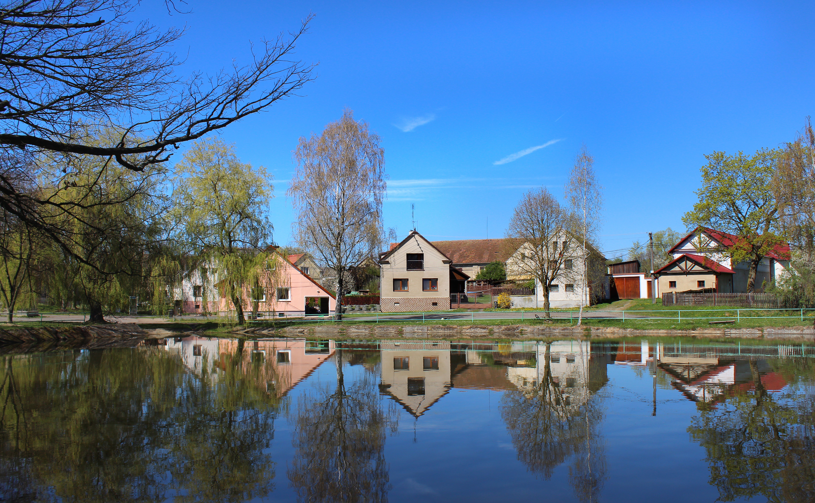 Common pond in Únehle village, Czech Republic